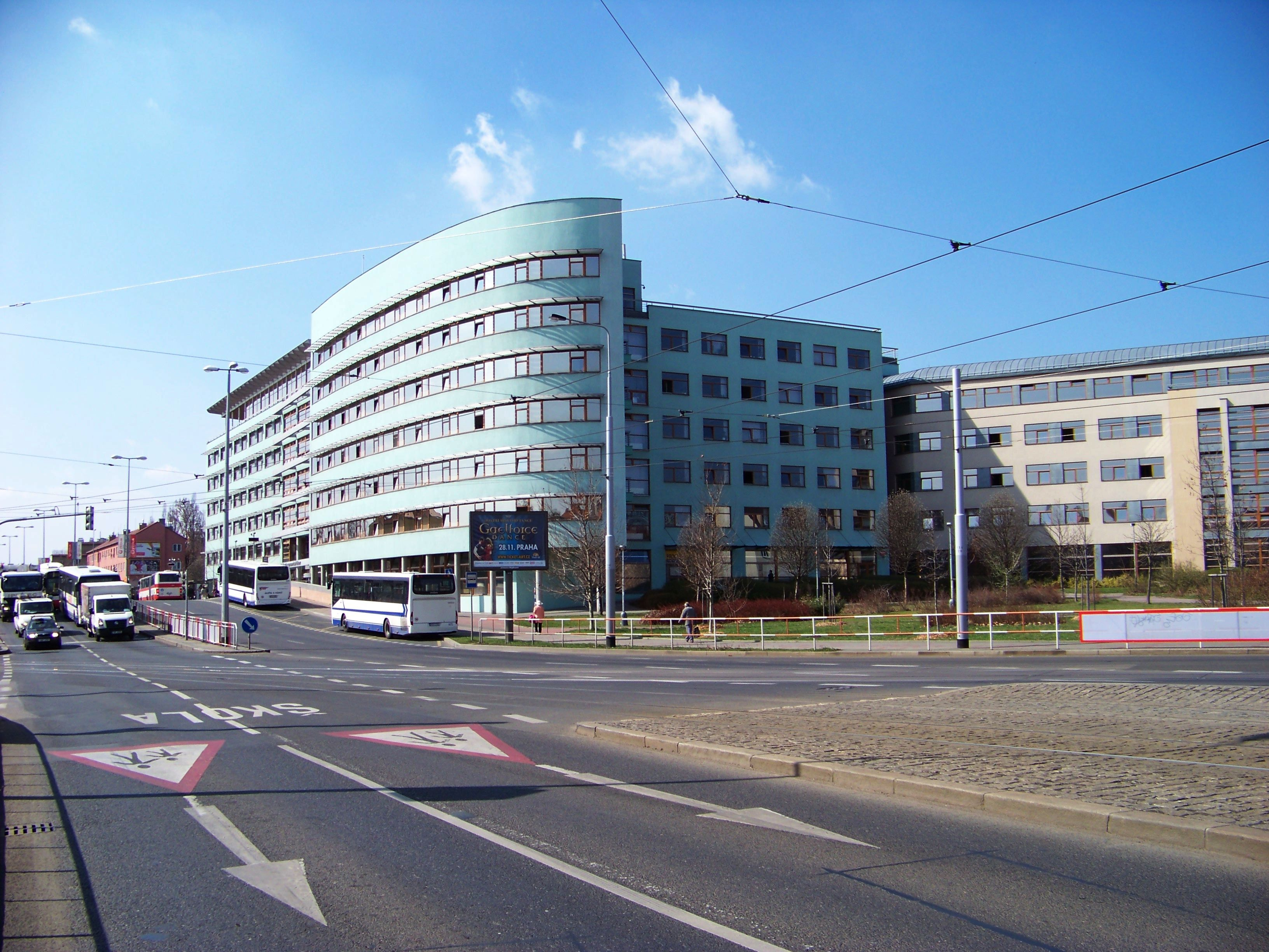 Prague-Kobylisy, the Czech Republic. Klapkova, Střelničná, Pod sídlištěm street. - OpenStreetMap(Info)